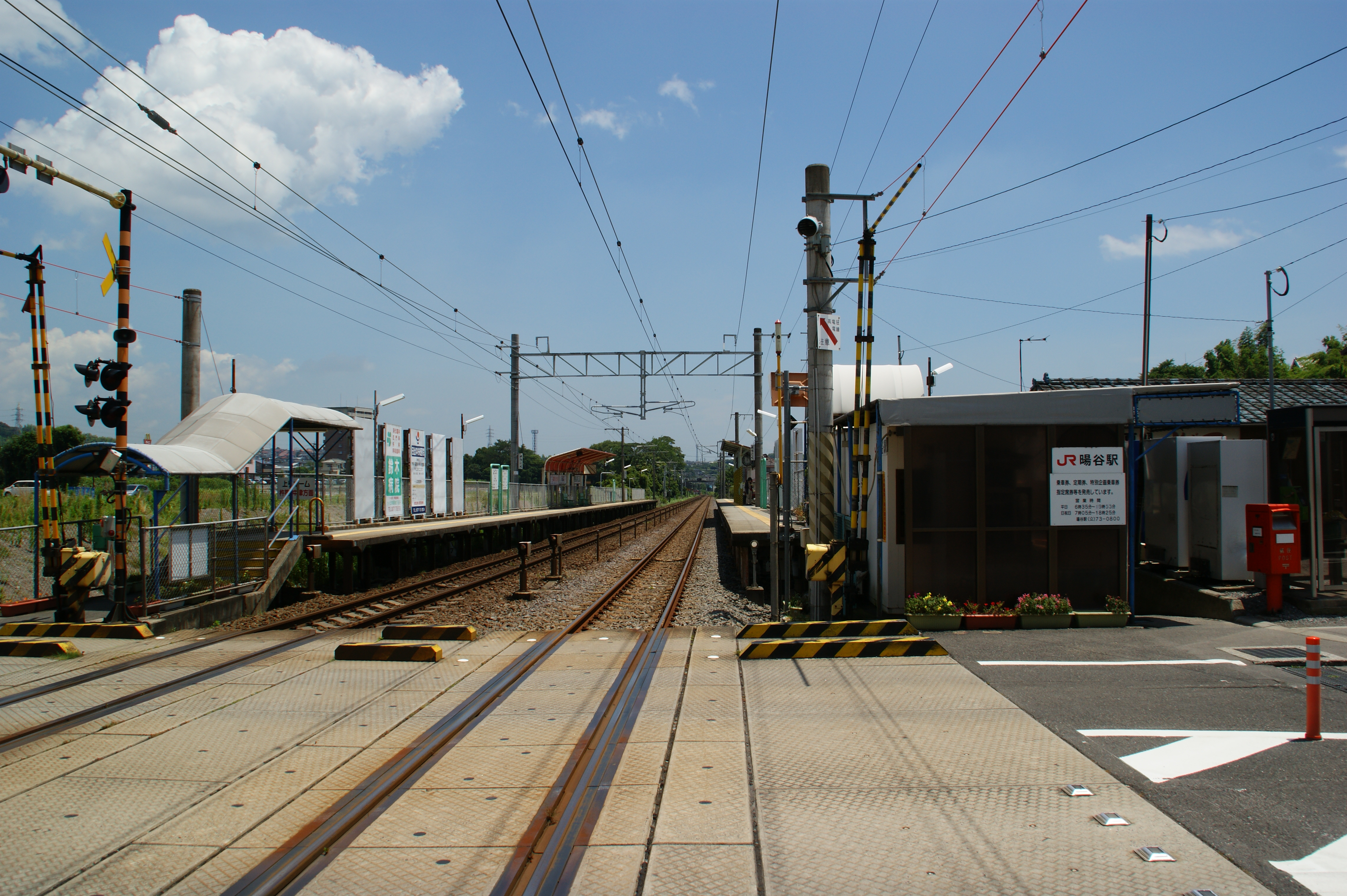 Kyushu Railway, Yokoku Station.(Hiji Town, Oita Prefecture, Japan)